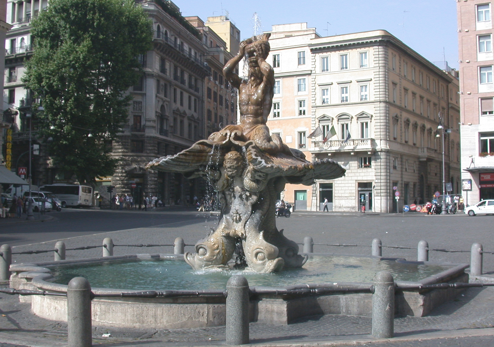 Rome, Fountain of the Triton, in Piazza Barberini square, by Gianlorenzo Bernini. Personal photo (june 2005) by MM in it.wiki.